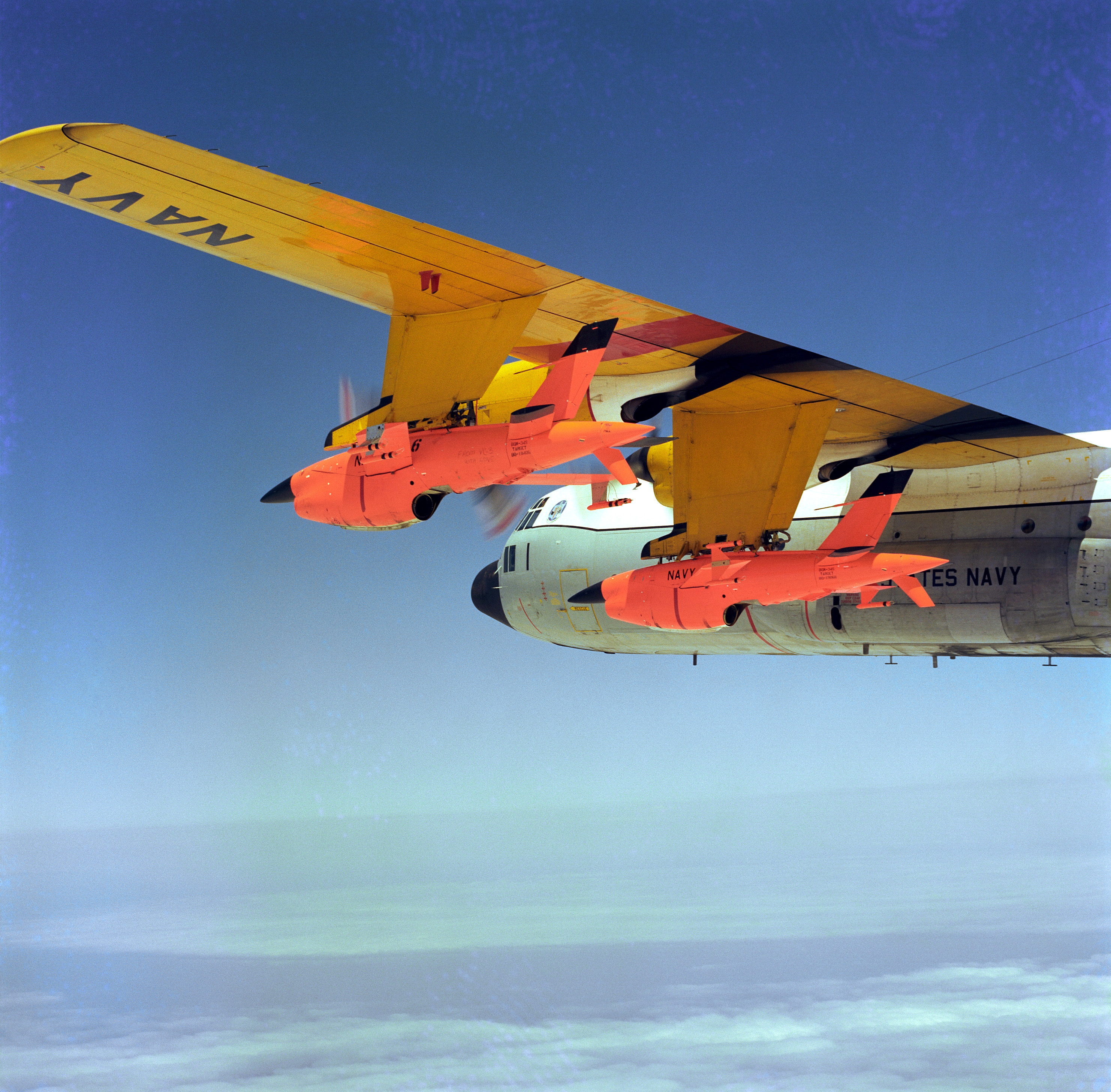 An air-to-air left side view of a DC-130 Hercules drone control aircraft carrying two BQM-34S Firebee target drones under its wing. The aircraft is assigned to Fleet Composite Squadron 3 (VC-3). ID: DN-SC-85-06043